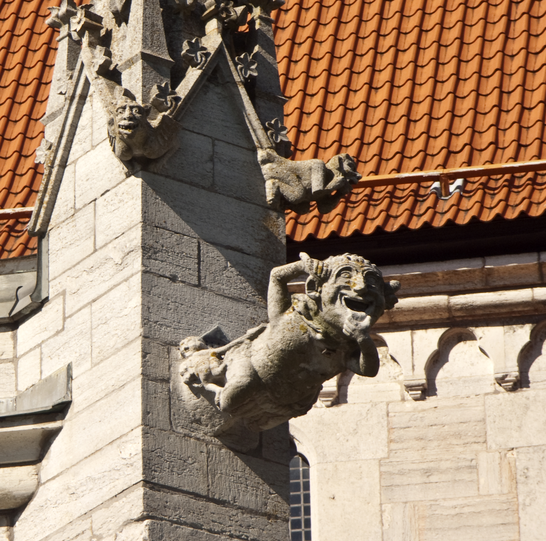 Visby cathedral, Sweden: a gargoyle under a pinnacle, south side.